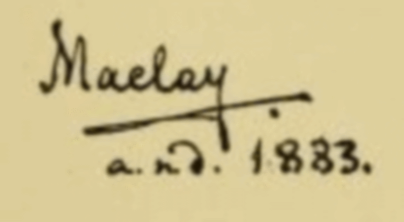 Signature Miklouho-Maclay Nicholas from illustrations to articles in the publication «Proceedings of the Linnean Society of NSW, vol. VIII, for the year 1883»